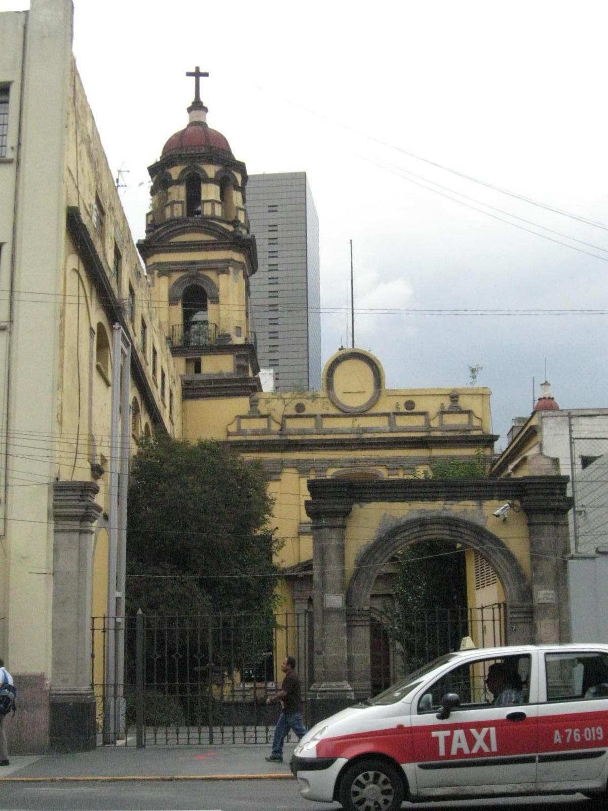 Photo of the Convent of San Diego, which contains a plaque to victims of the Mexican Inquisition that were burned alive here.